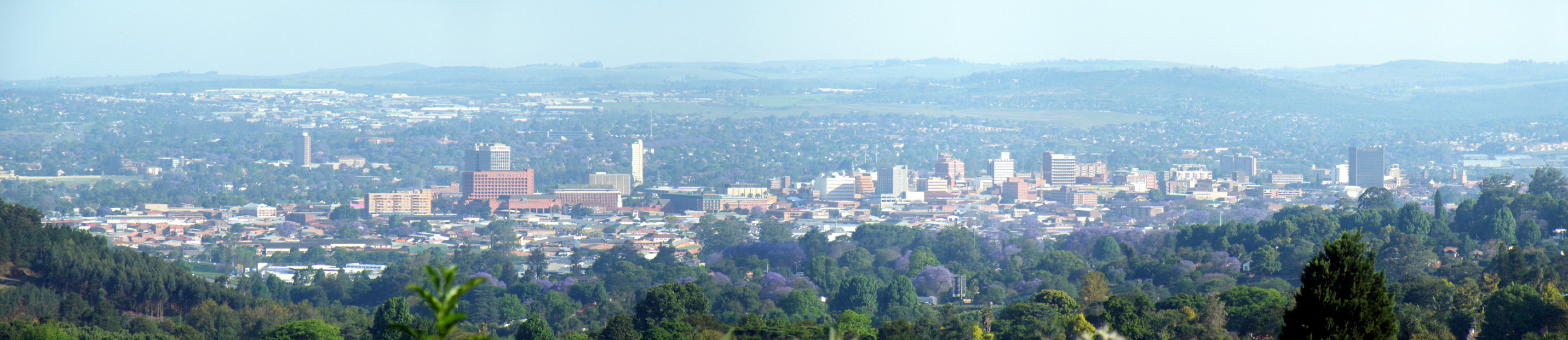 Downtown Pietermaritzburg from Chase Valley